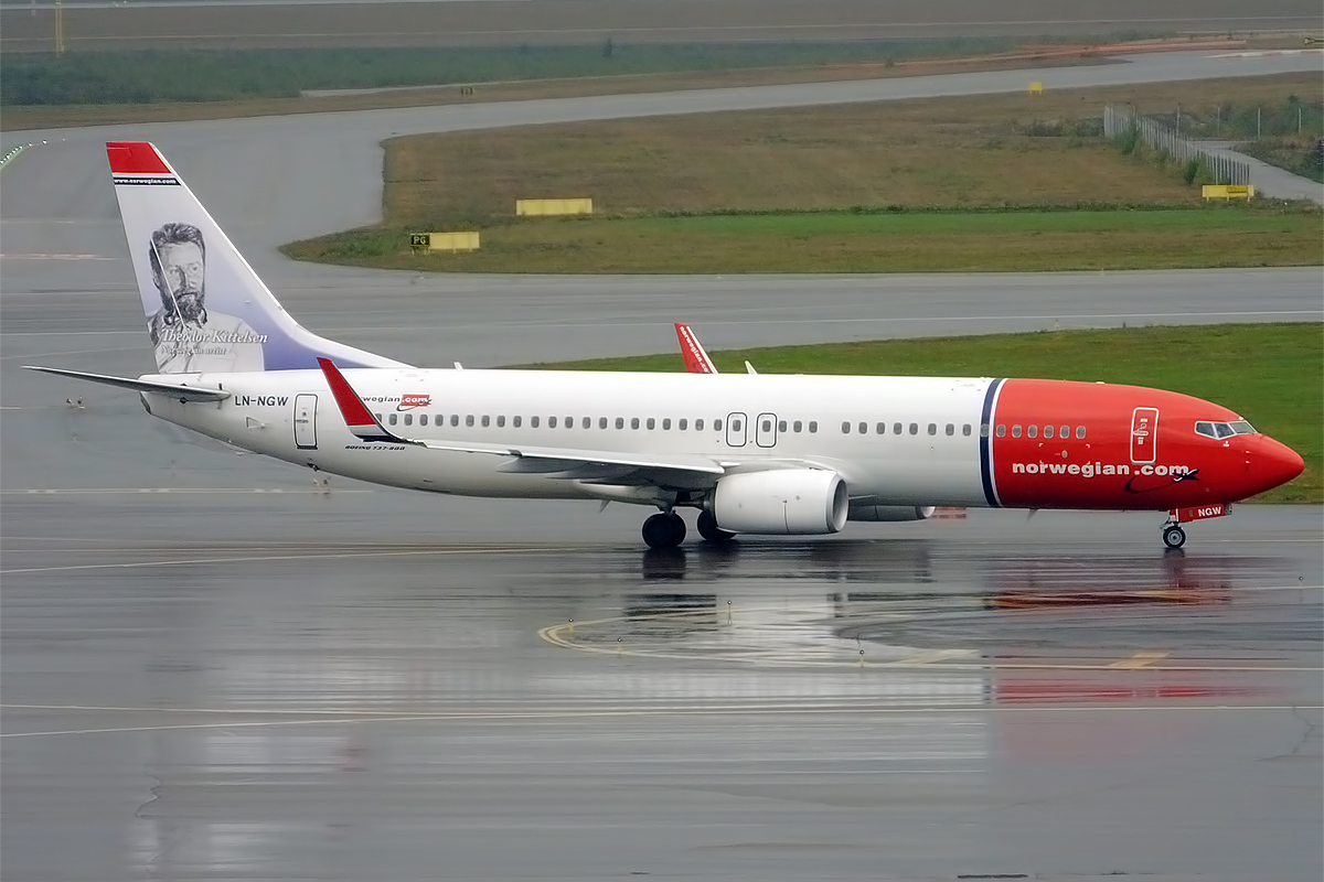 Norwegian (Theodor Kittelsen livery), LN-NGW, Boeing 737-8JP